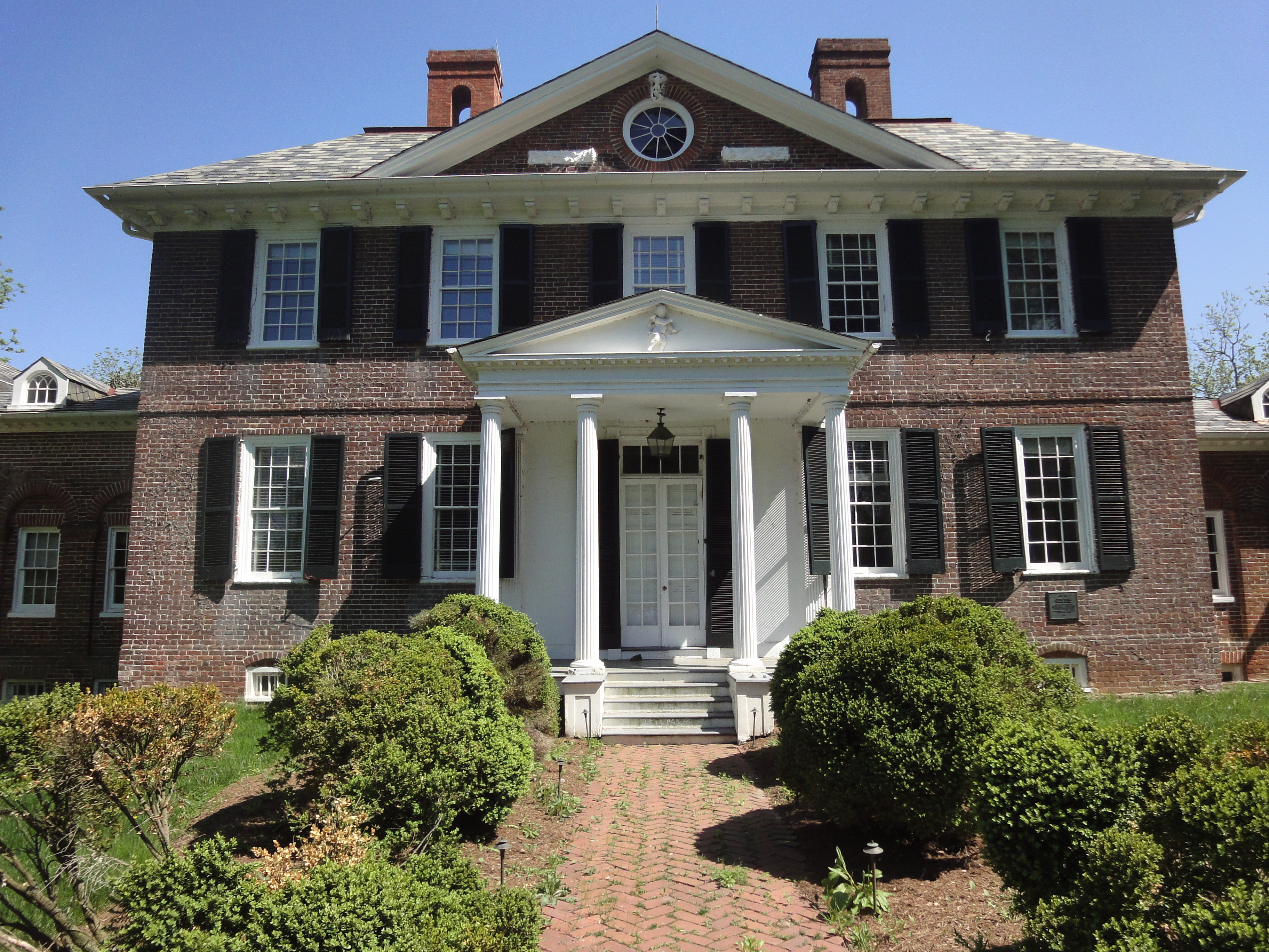 An image of the front of Tulip Hill, a plantation house built between 1755 and 1756.